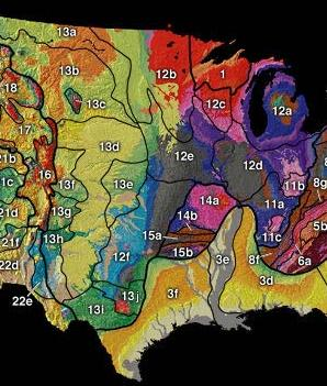 see image:US_physiographic_regions.map